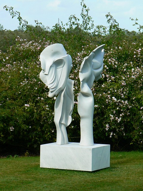 'on form 08', Asthall Manor, Asthall